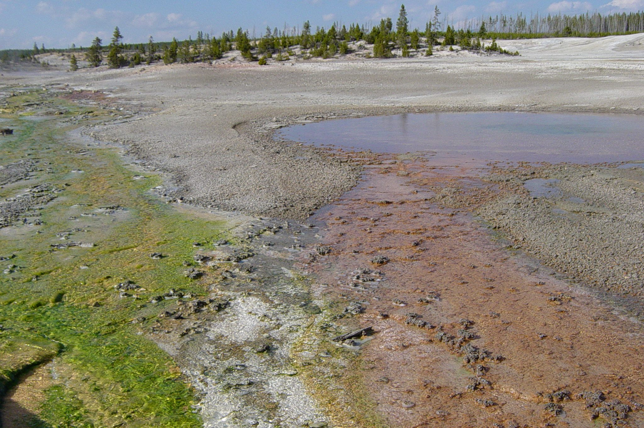 Norris Geyser Basin in the Yellowstone area – algae on left, bacteria on right